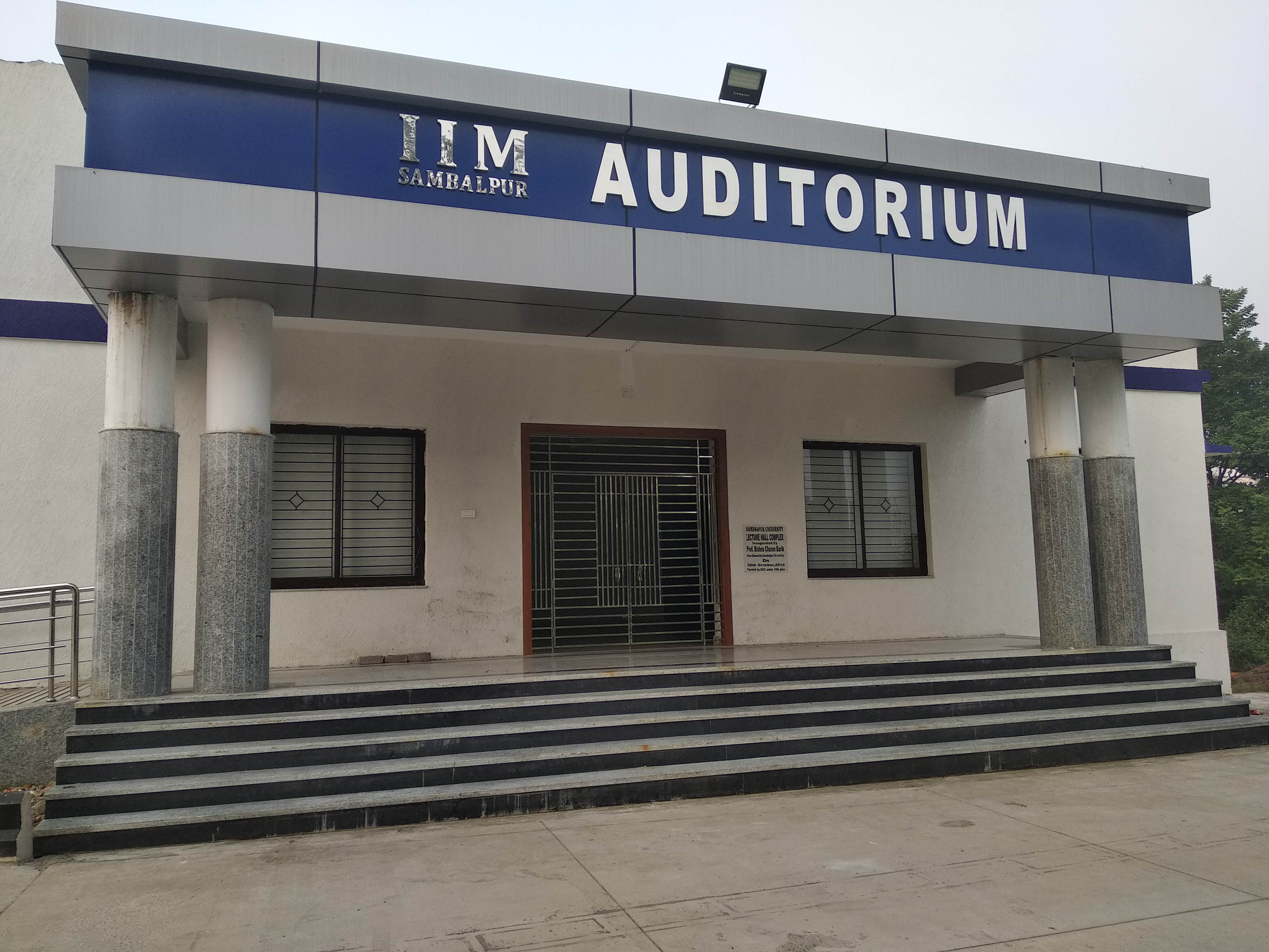 I.I.M-S Auditorium Samabalpur University